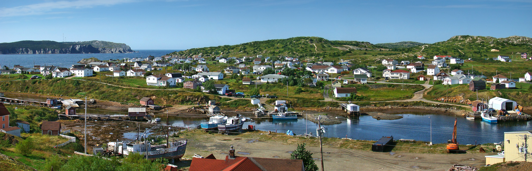 Durrell, Twillingate South Island, Central Newfoundland, Canada.